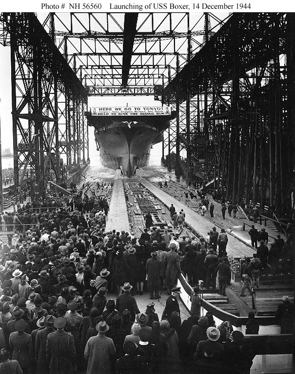 USS Boxer (CV-21) Slides down the building ways, during launching ceremonies at the Newport News Shipbuilding & Dry Dock Company, Newport News, Virginia, 14 December 1944. Note banner spread across the front of Boxer's flight deck, proclaiming: "Here We Go to Tokyo! Newport News Shipyard Workers' War Bonds Help to Sink the Rising Sun".